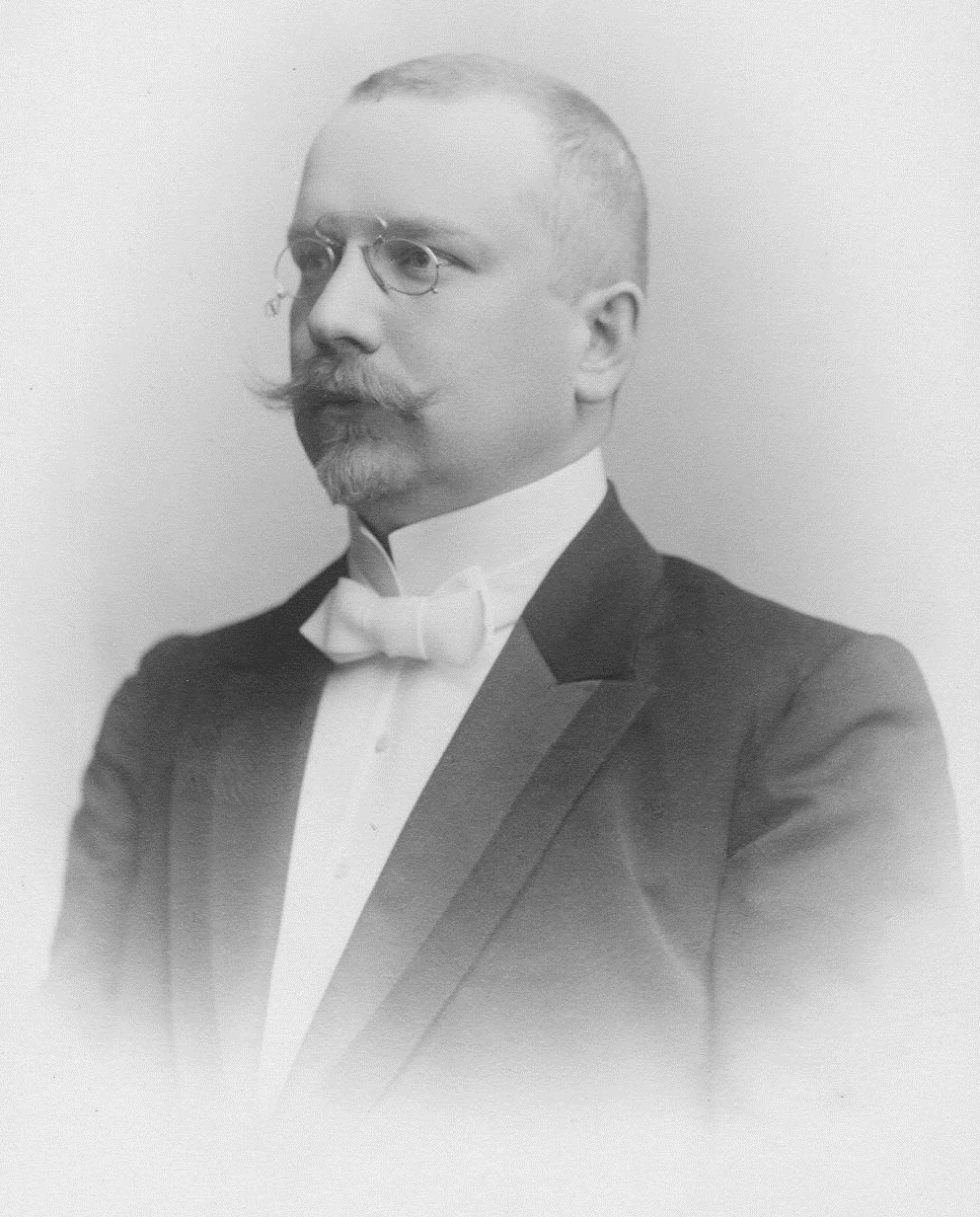 Finnish jurist George Granfelt (1865–1917).